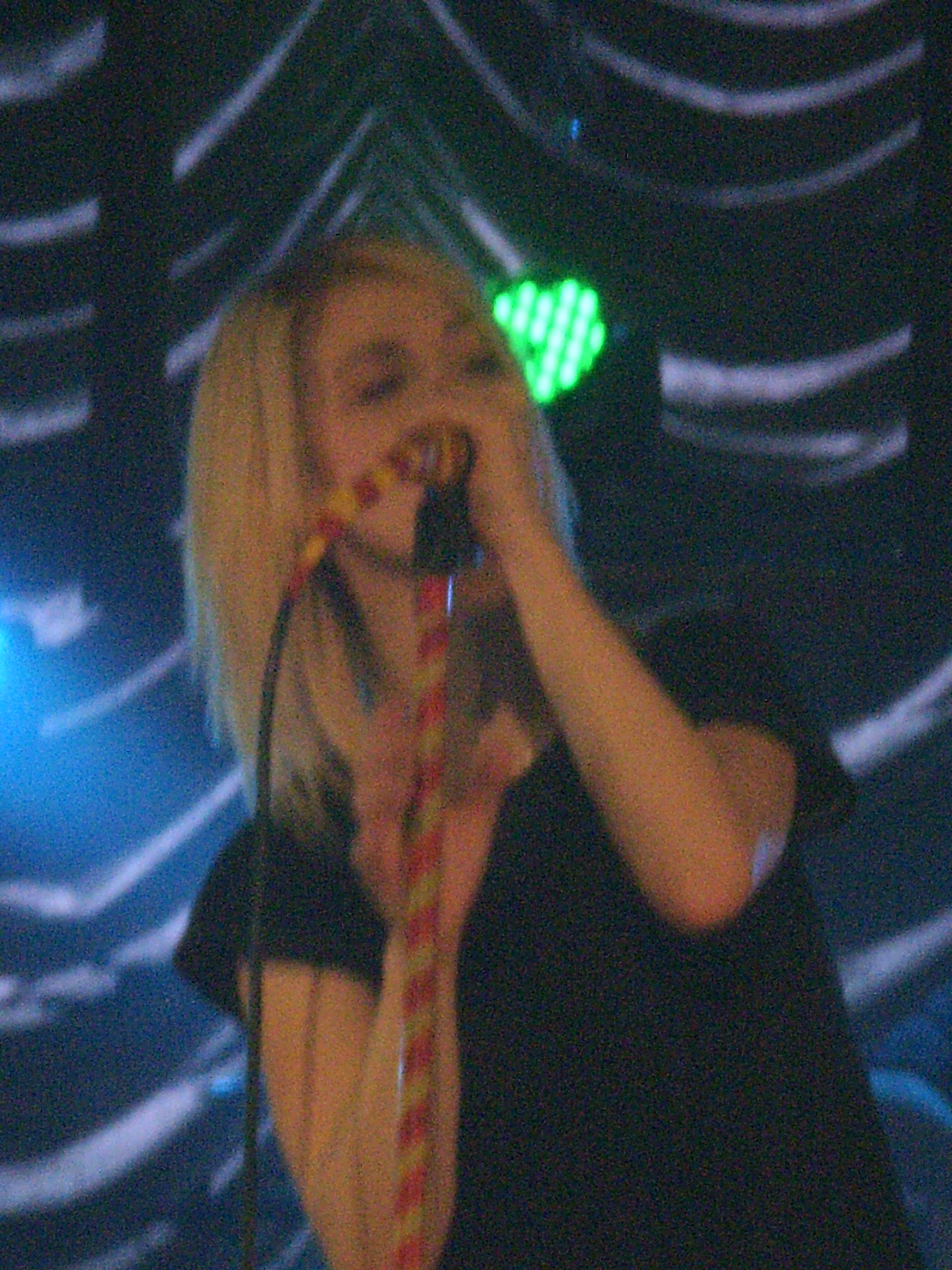 Hayley Williams Brighton